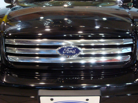 2008 Middle East Crown Victoria Special Edition